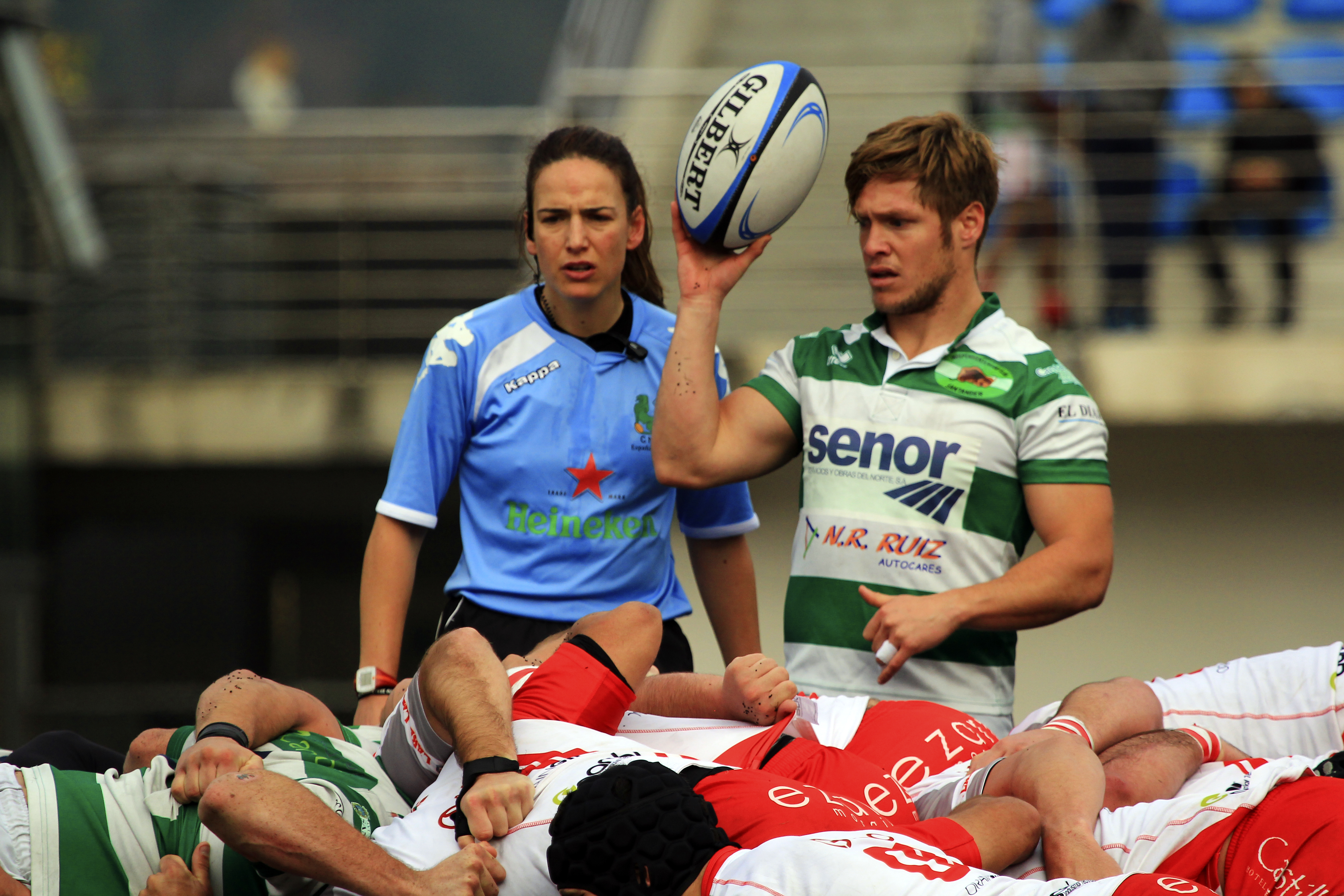 Alhambra Nievas directing a match in December 2016.